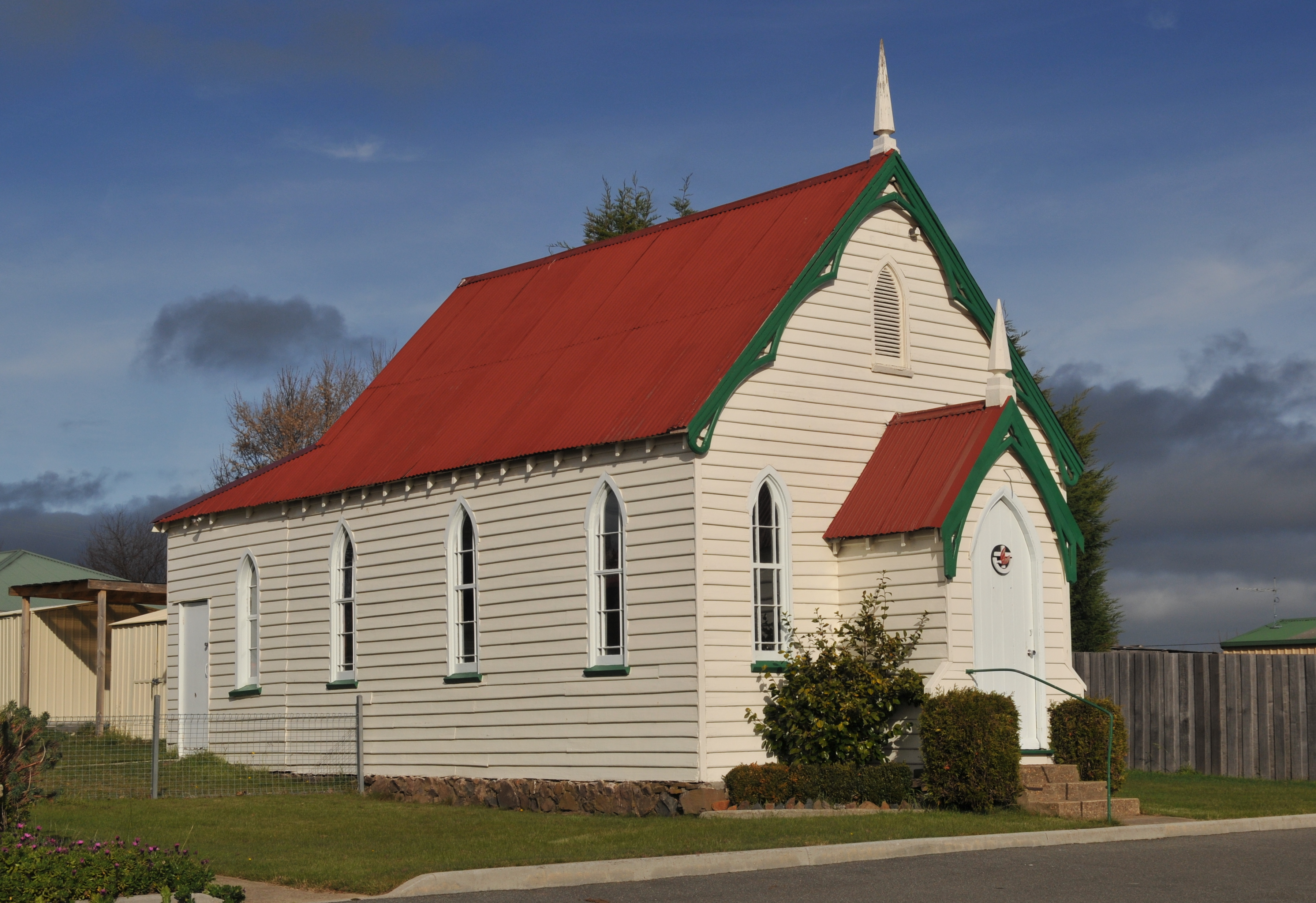 Over 150 year old church in Hadspen, Tasmania. Built as a wesleyan, changed to methodist, now Uniting Church.